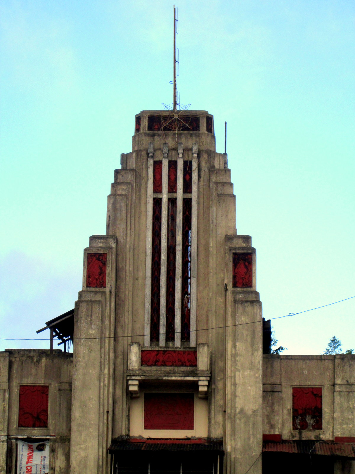 Jaro Municipal Hall